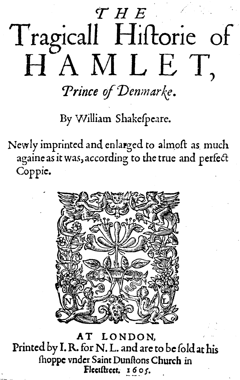 The third quarto of Hamlet (1605). A straight reprint of the 2nd quarto (1604)